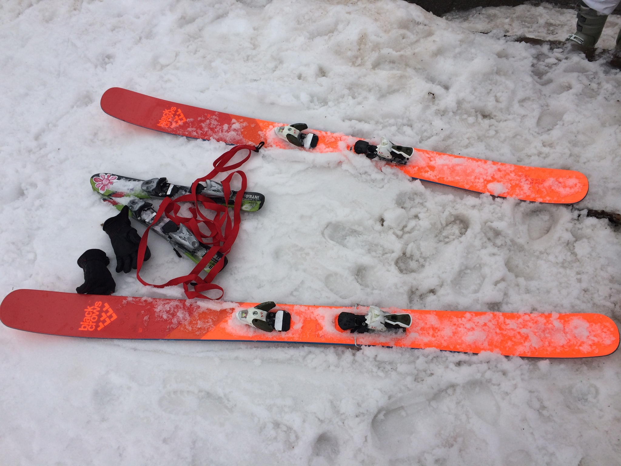 This image shows a pair of modern powder skis. These are typical of modern designs and show a mixture of features including a small amount of sidecut, rocker tips and tails, and some camber. Generally they are very wide compared to conventional designs, notice how the bindings sit in the middle of the ski.